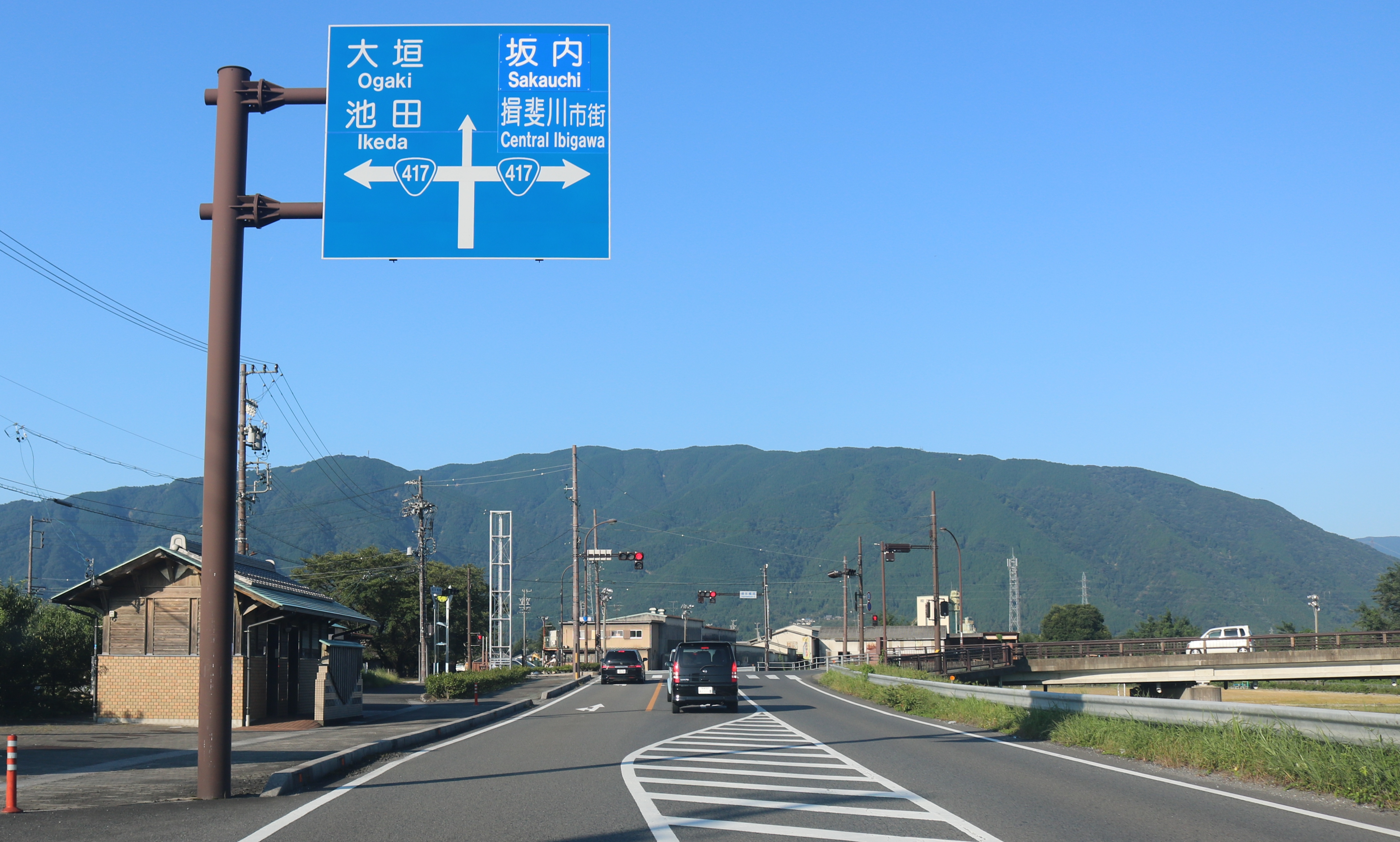 Gifu Prefectural Road Route 261, Route 417 and Mount Ikeda in Shimookajima, Ibigawa, Gifu Prefecture, Japan.